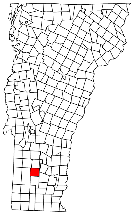 Map of Vermont towns with Winhall highlighted